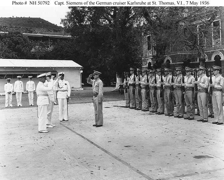 Saint Thomas, Virgin Islands A U.S. Marine Corps honor guard receives Captain Siemens, Commanding Officer of the visiting German light cruiser Karlsruhe, 7 May 1936.